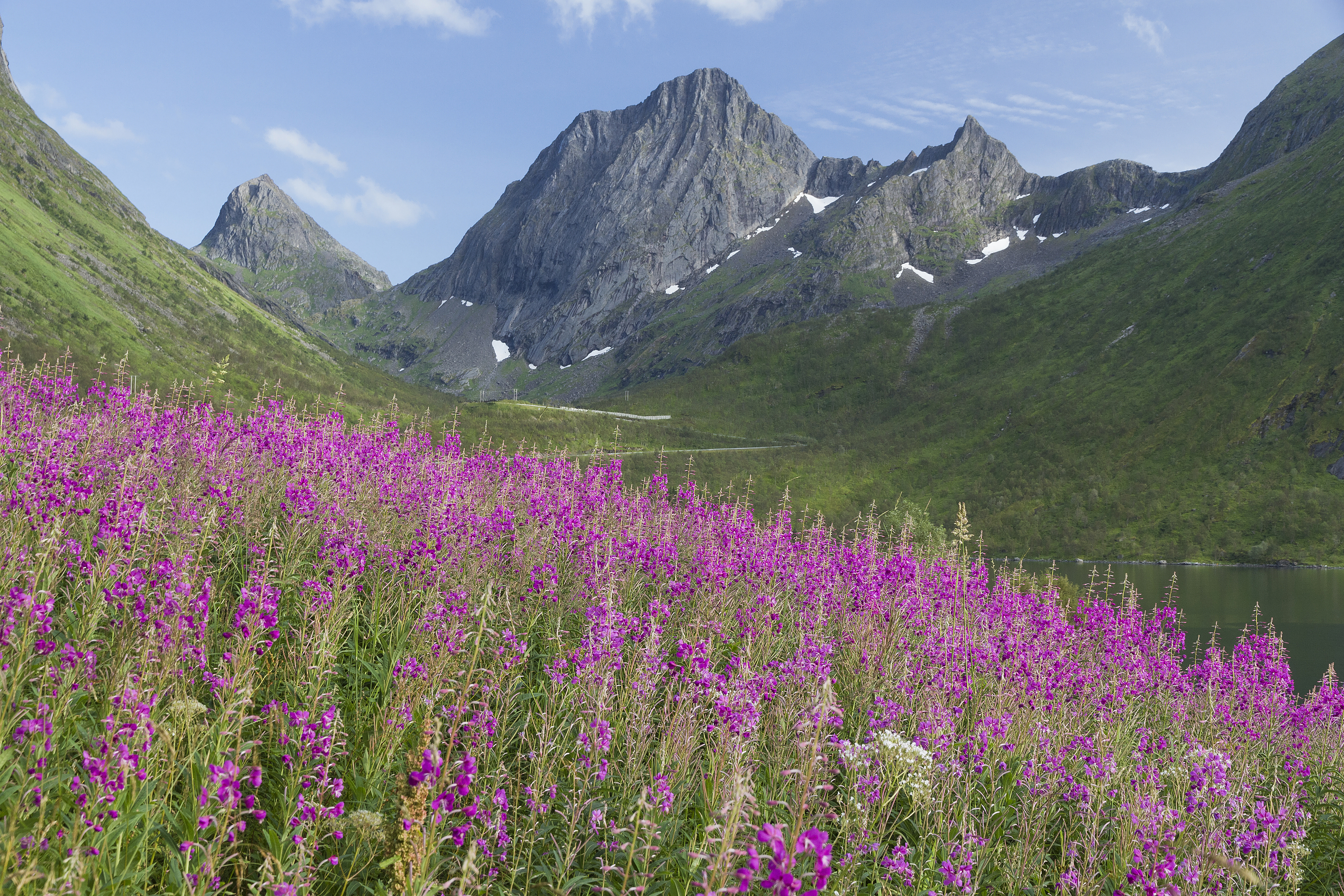 Rosebay willowherb (Chamerion angustifolium) at Bergsbotn, Bergsfjorden, Senja, Troms, Norway in 2014 August. The mountains in the background include Botntinden (783 m) and Stormoa (975 m).